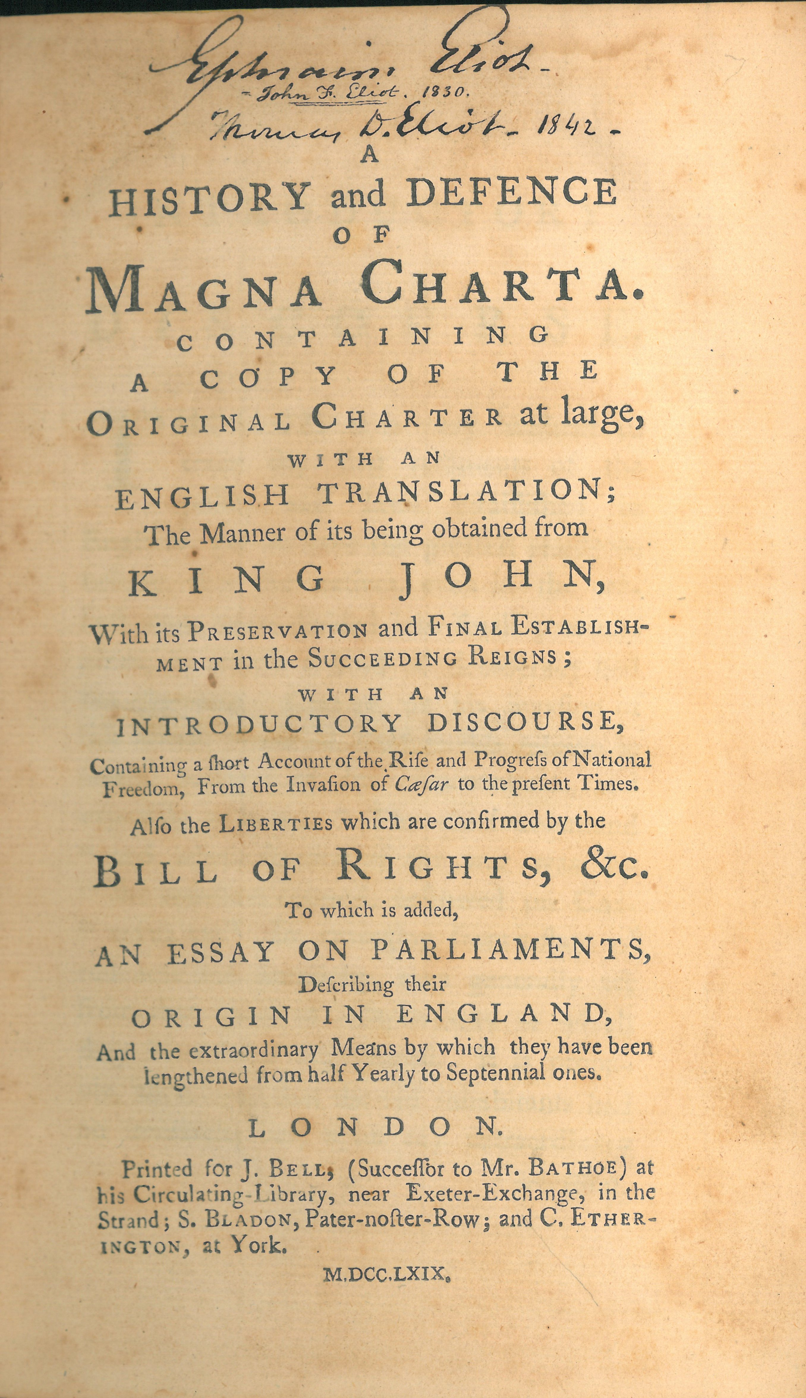 Title page of Samuel Johnson (1769) A History and Defence of Magna Charta. Containing a Copy of the Original Charter at Large, with an English Translation; the Manner of its being Obtained from King John, with its Preservation and Final Establishment in the Succeeding Reigns; with an Introductory Discourse, Containing a Short Account of the Rise and Progress of National Freedom, from the Invasion of Caesar to the Present Times. Also the Liberties which are Confirmed by the Bill of Rights, &c. To which is Added, an Essay on Parliaments, Describing their Origin In England, and the Extraordinary Means by which they have been Lengthened from Half Yearly to Septennial ones, London: Printed for J. Bell, (successor to Mr. Bathoe) at his Circulating-Library, near Exeter-Exchange, in the Strand; S. Bladon, Pater-Noster-Row; and C. Etherington, at York OCLC: 184790025.